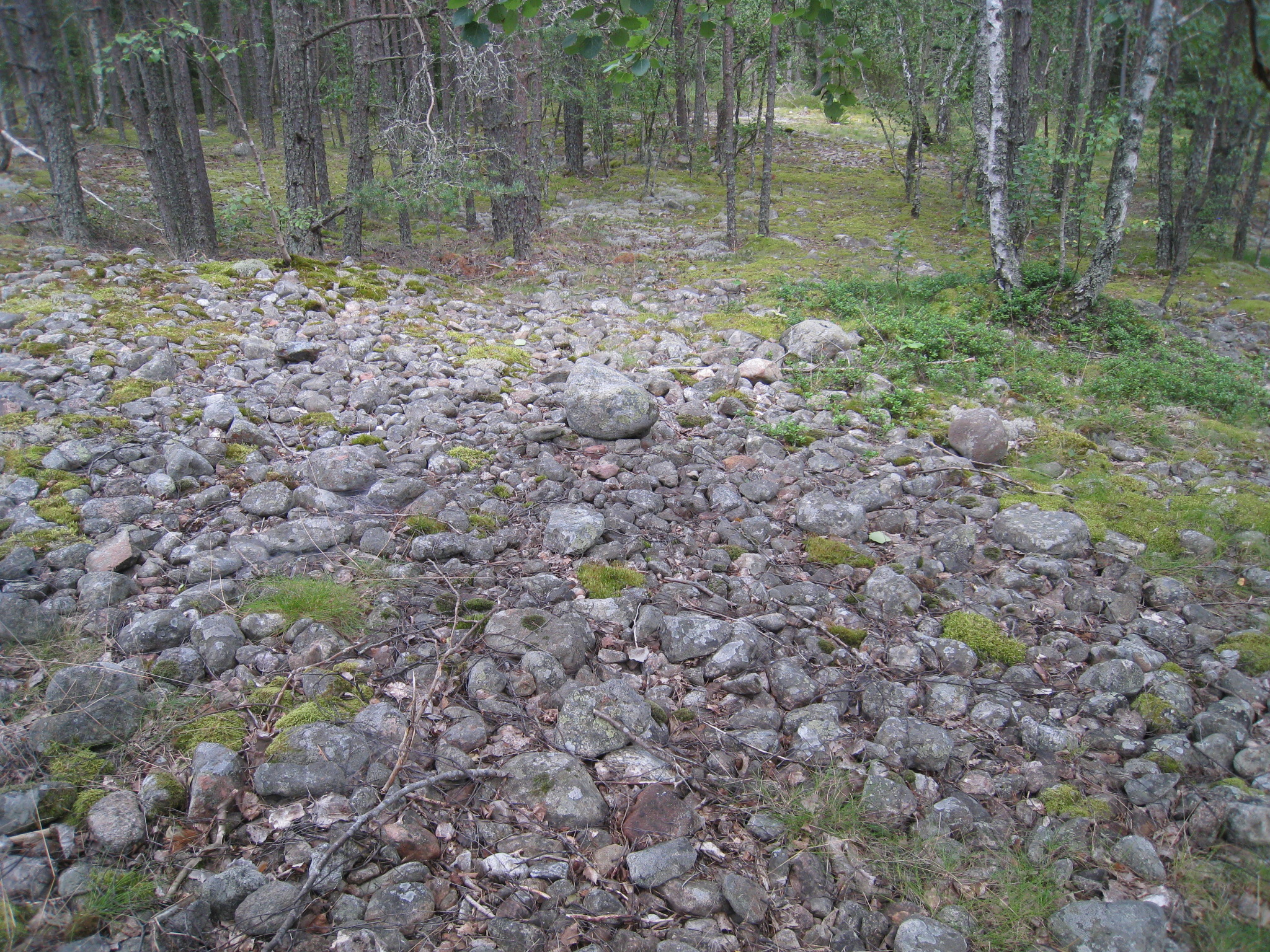 Cobblestones in Hummelmoraberget, Viksjö, Järfälla Municipality, Stockholm County.